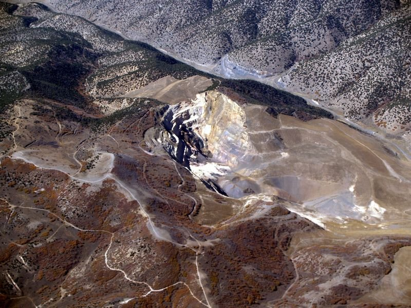 Sacramento Open pit mine in Mercur, Utah as seen from the air.